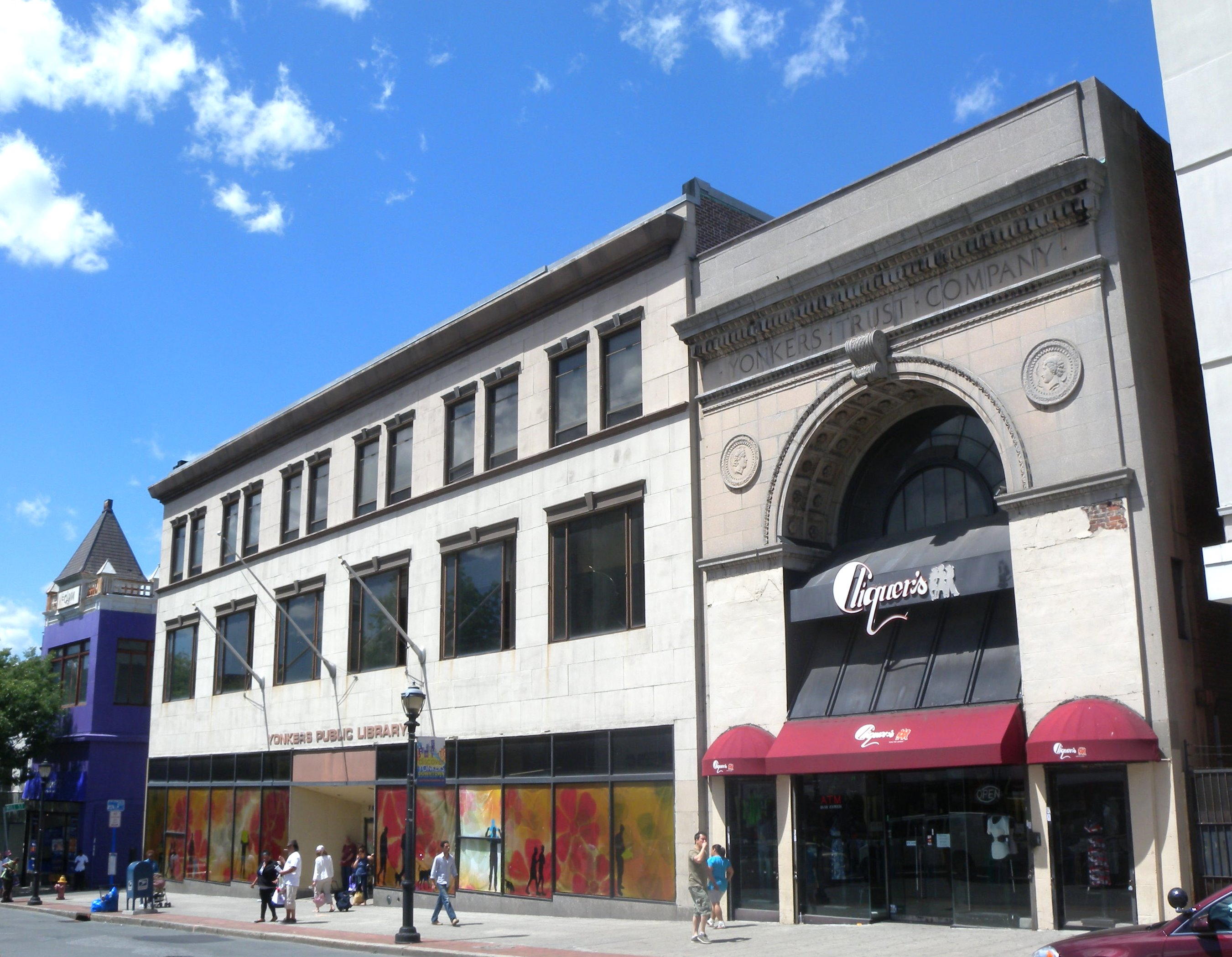 Looking northwest across Main Street at old library on a sunny early afternoon.